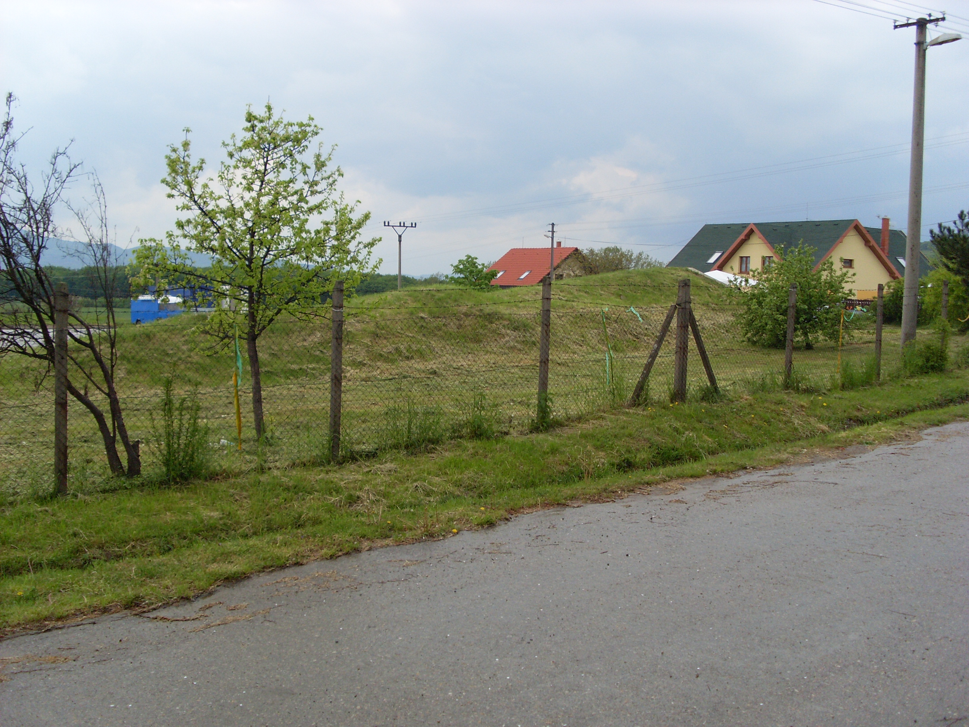 Cave of wine producer in Slovak Tokaj region / Tokaj & CO, s.r.o./